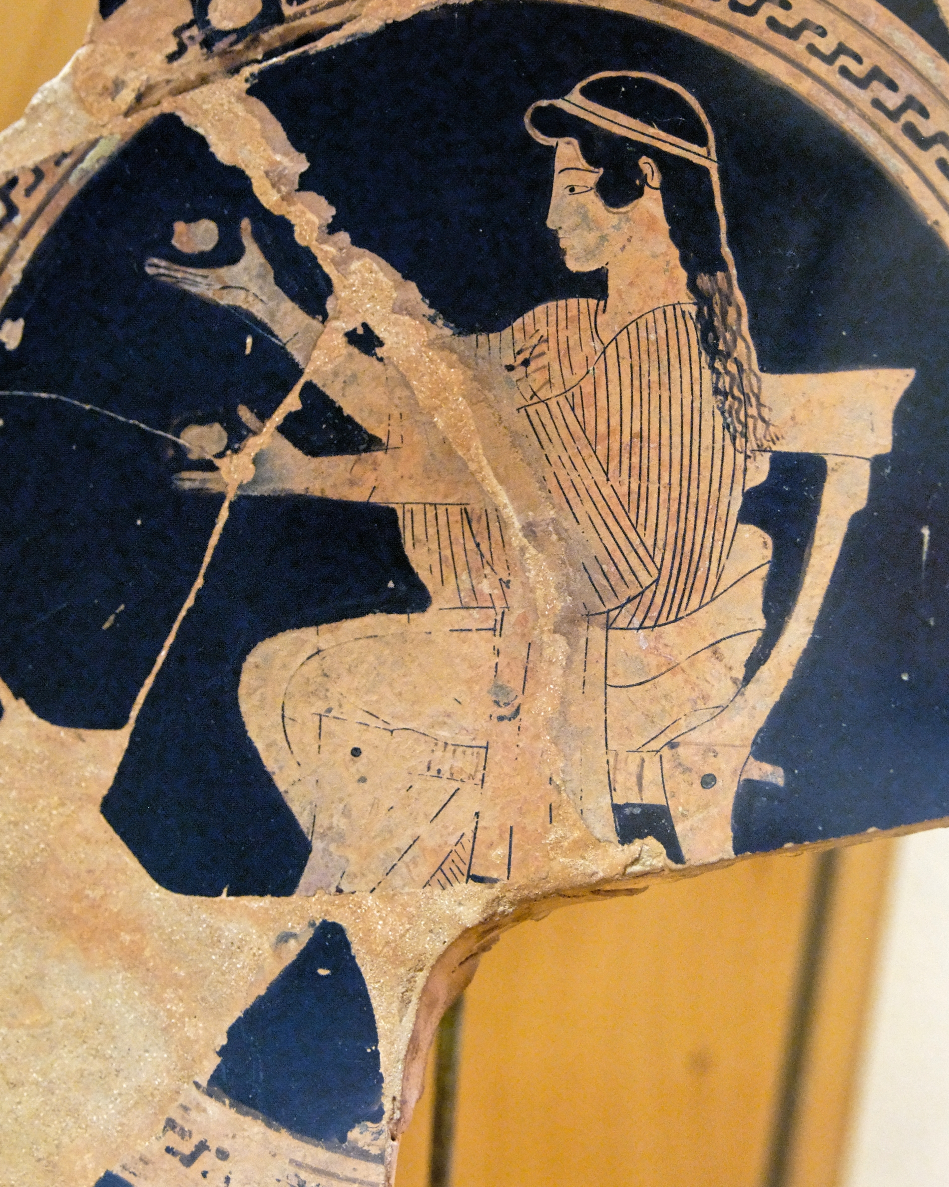 Seated girl juggling (?). Fragmented tondo of an Attic red-figure kylix, 470–460 BC. From Chiusi.